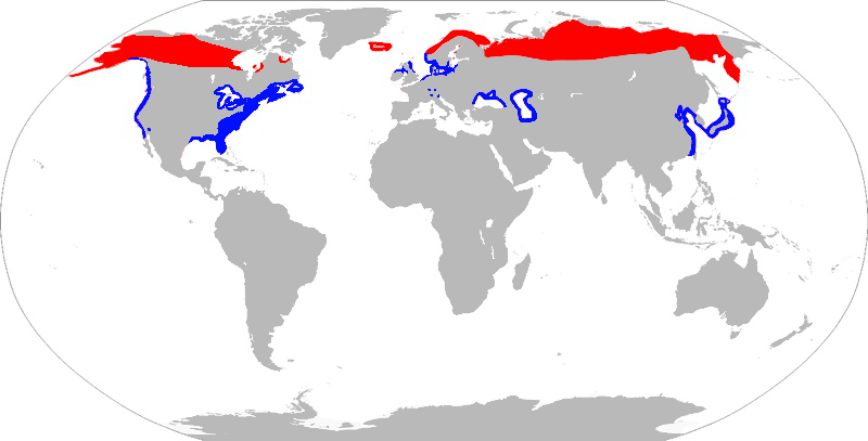 This is the habitat of the Greater Scaup Aythya marila